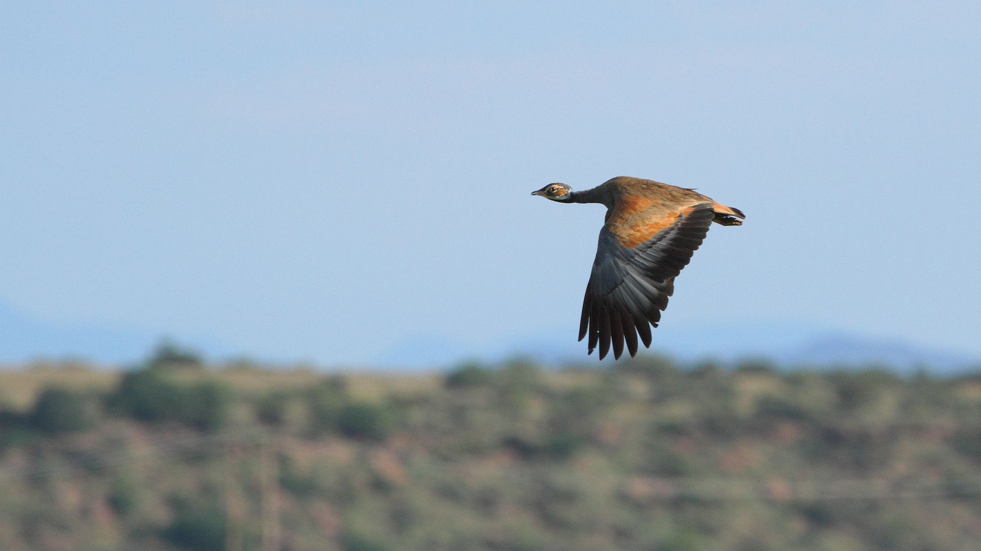 Blue korhaan (Eupodotis caerulescens) in flight at Garingboom Guest Farm, Free State, South Africa.